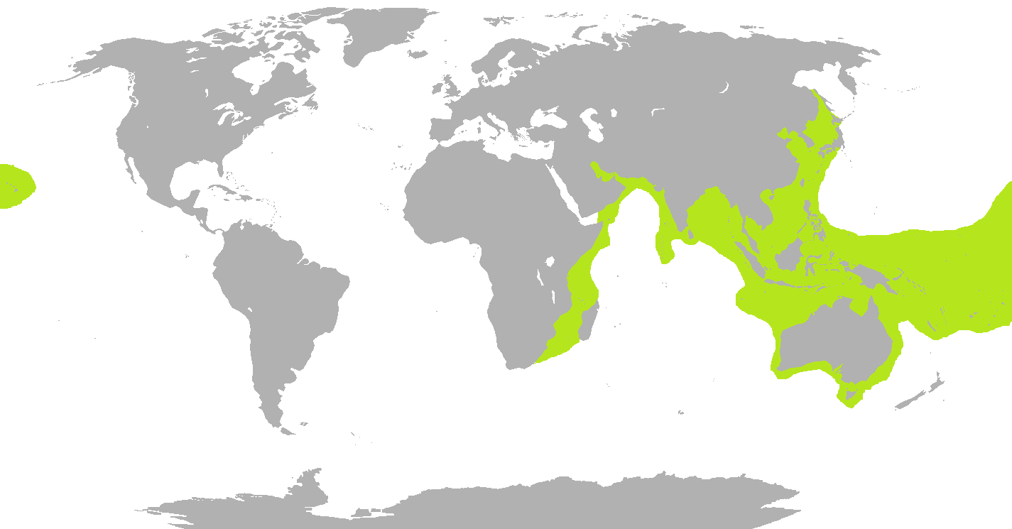 Map showing the range of sea snakes, except the yellow-bellied sea snake (Hydrophis/Pelamis platurus; a pelagic species that ranges as far as the East Pacific).